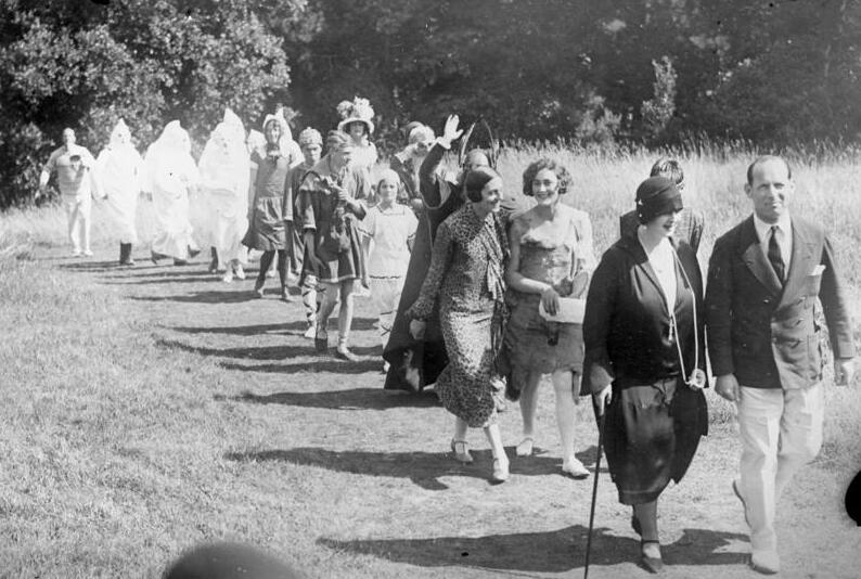 Prince George of Greece and Denmark in exile in London